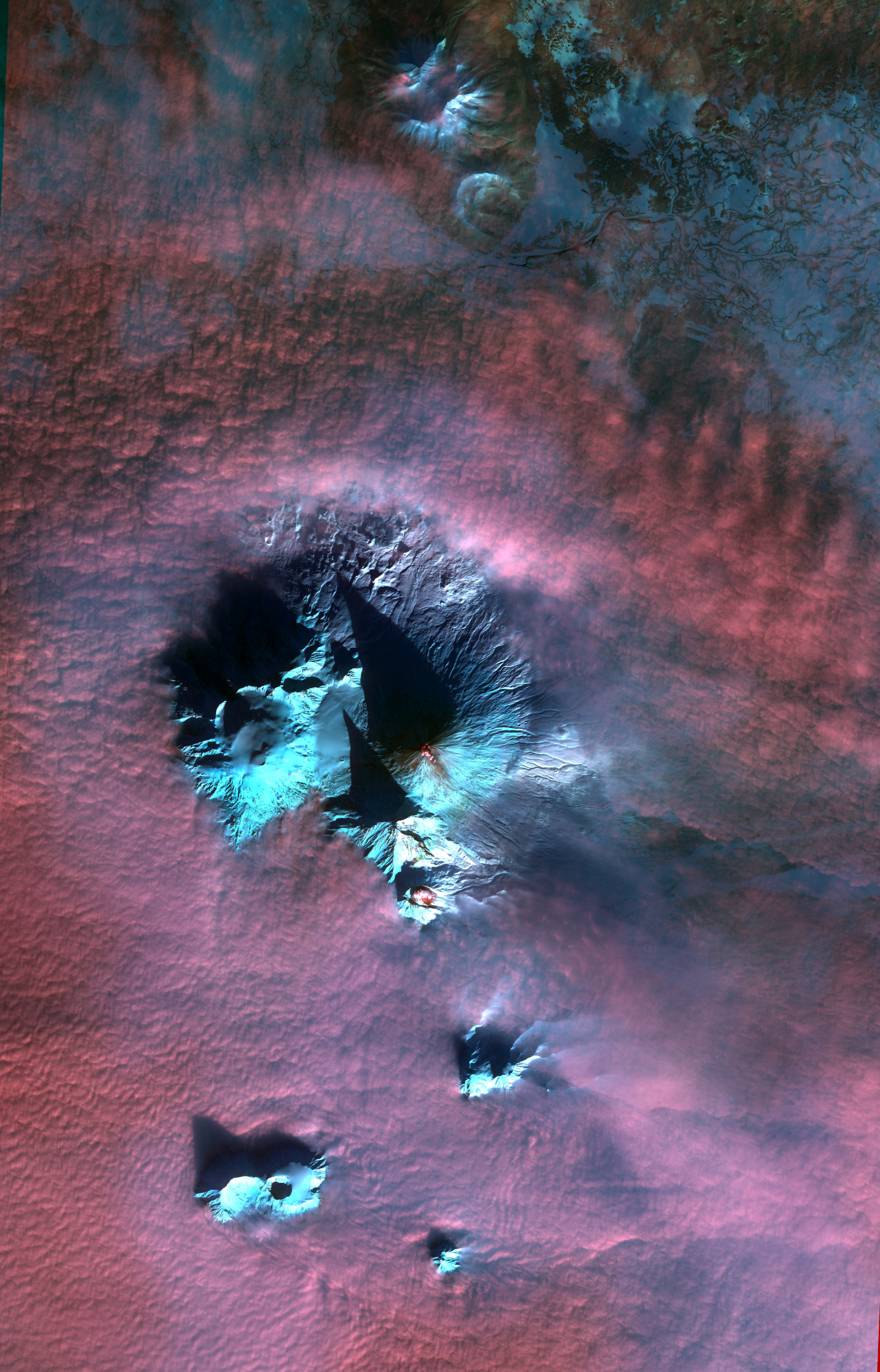 the Klyuchevskaya (top) and the Bezymianny (down) in eruption